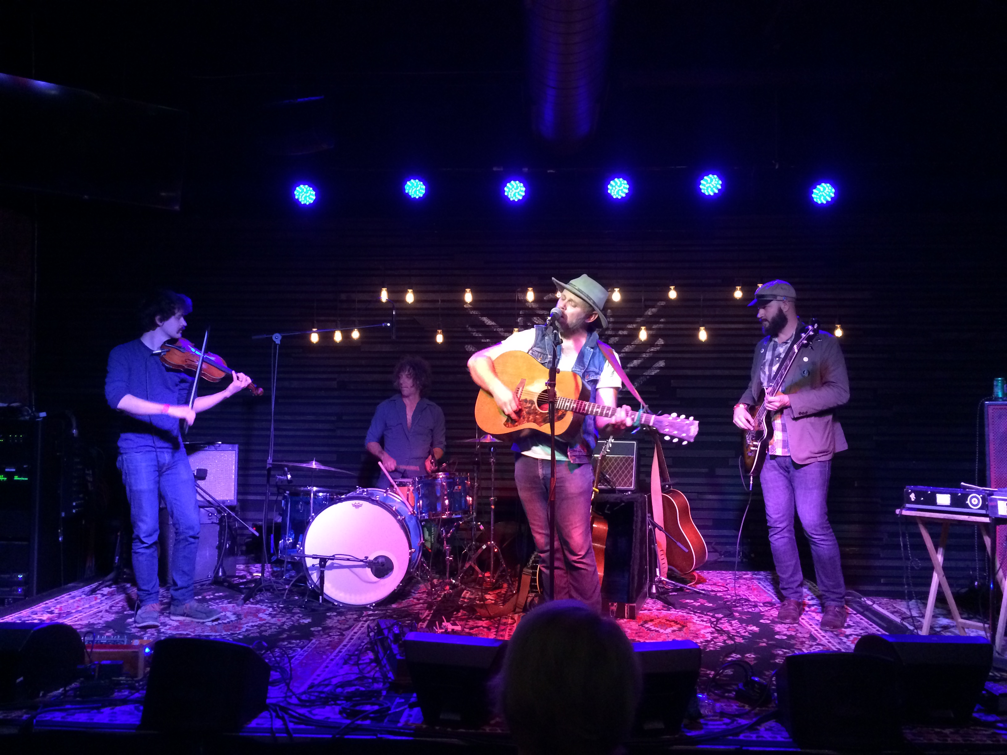 Horse Feathers performing in June 2018, on tour for the album 'Appreciation'. Photograph of four men performing on stage, with an acoustic guitar, bass guitar, fiddle, and drum set.